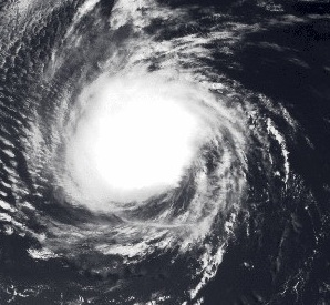 Hurricane Genevieve on July 25 2008 at peak intensity, Image was found at wunderground but said courtesy of NASA.